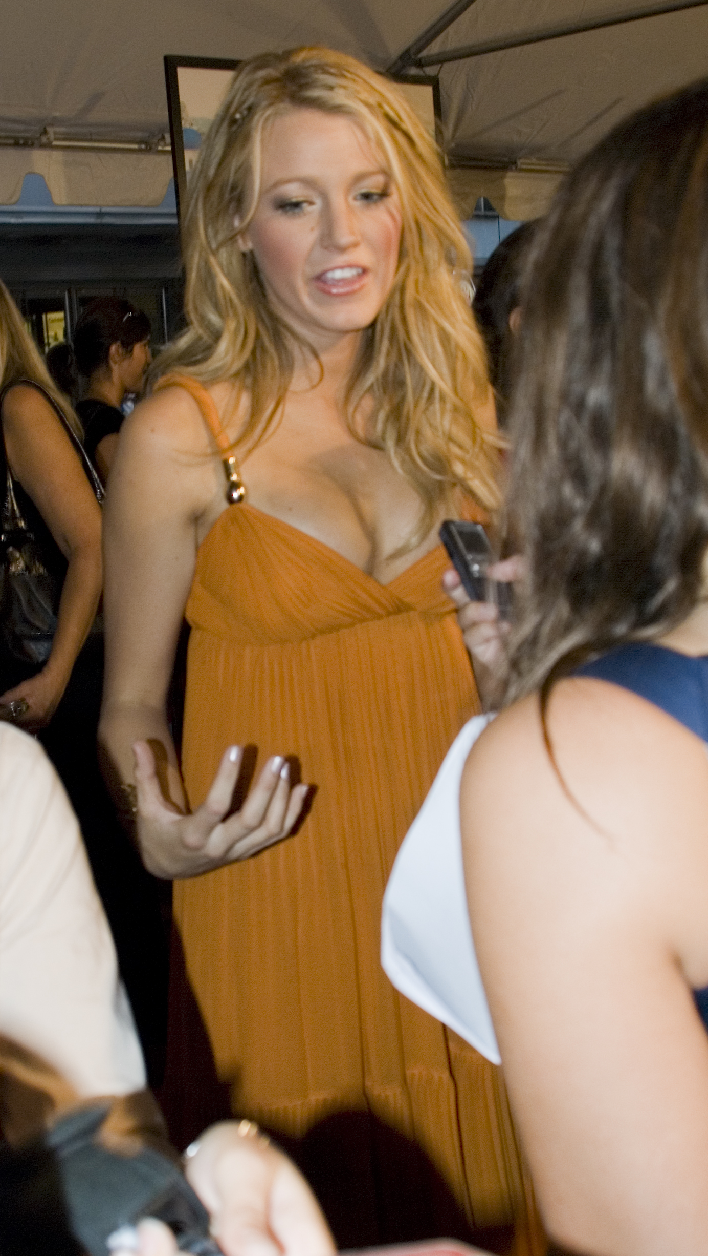 Blake Lively at the New York Premiere of The Sisterhood of the Traveling Pants